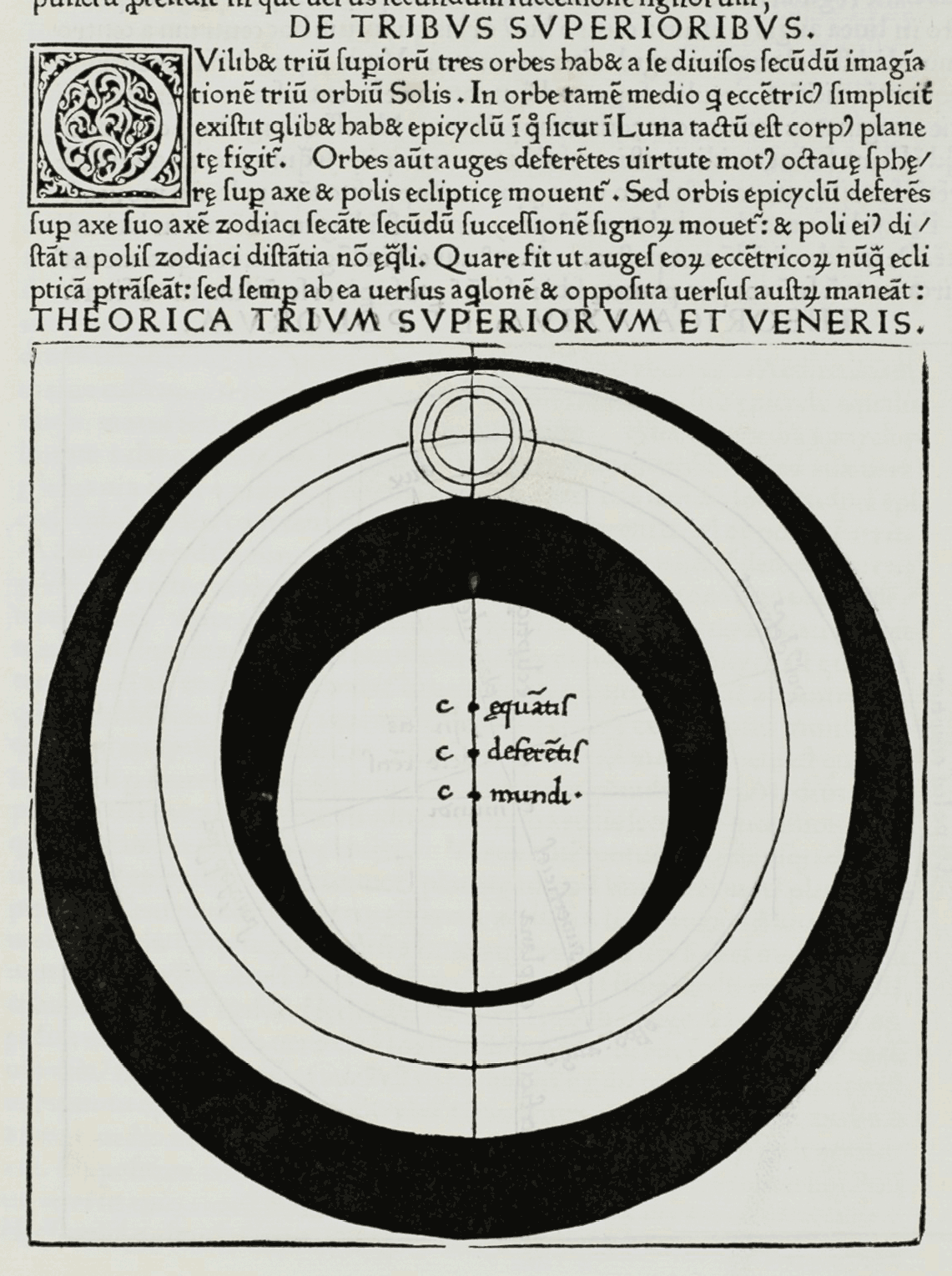 Model for the Three Superior Planets and Venus from Georg von Peuerbach, Theoricae novae planetarum.Image enhanced for legibility. The abbreviations in the center of the diagram read: C[entrum] æquantis (Center of the equant) C[entrum] deferentis (Center of the deferent) C[entrum] mundi (Center of the world)